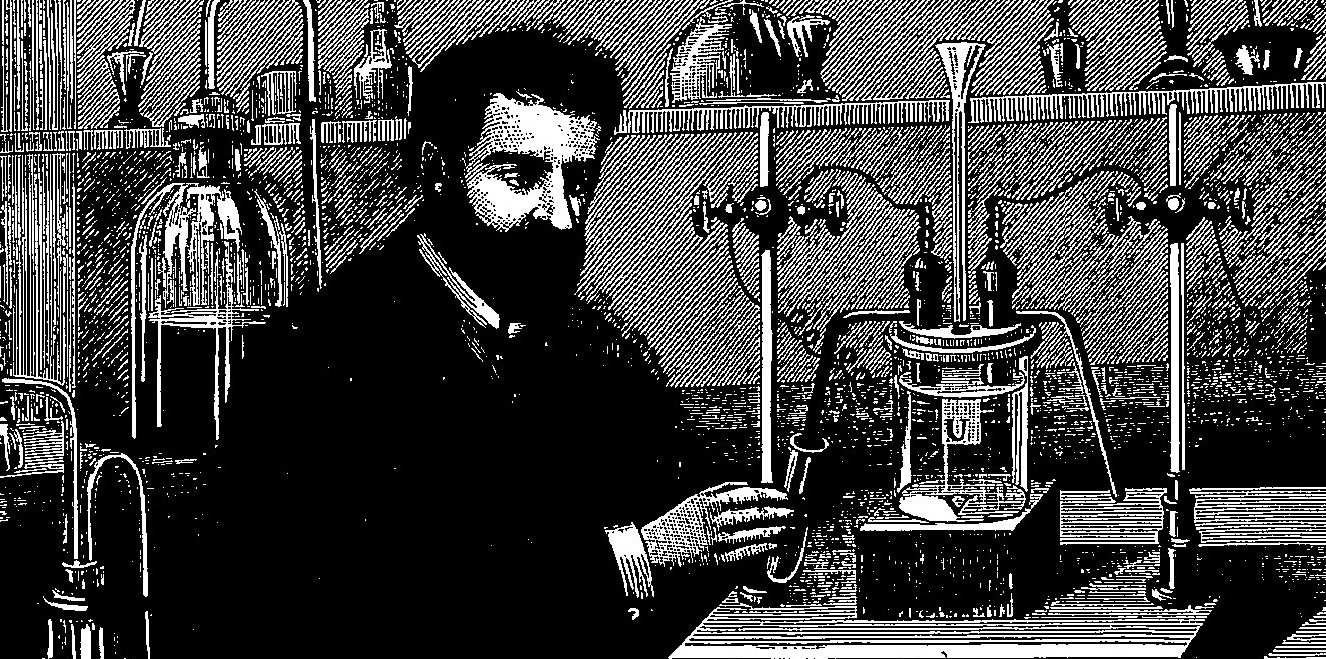 A drawing of French chemist Henri Moissan (28 September 1852 – 20 February 1907) isolating fluorine from hydrofluoric acid in 1886.